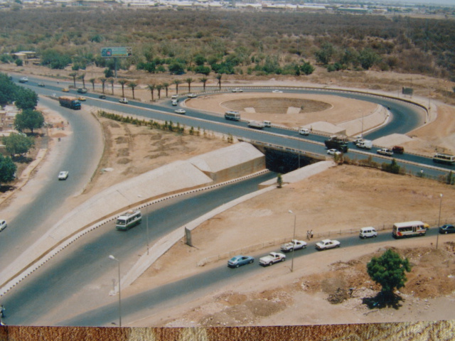 Khartoum tunnel